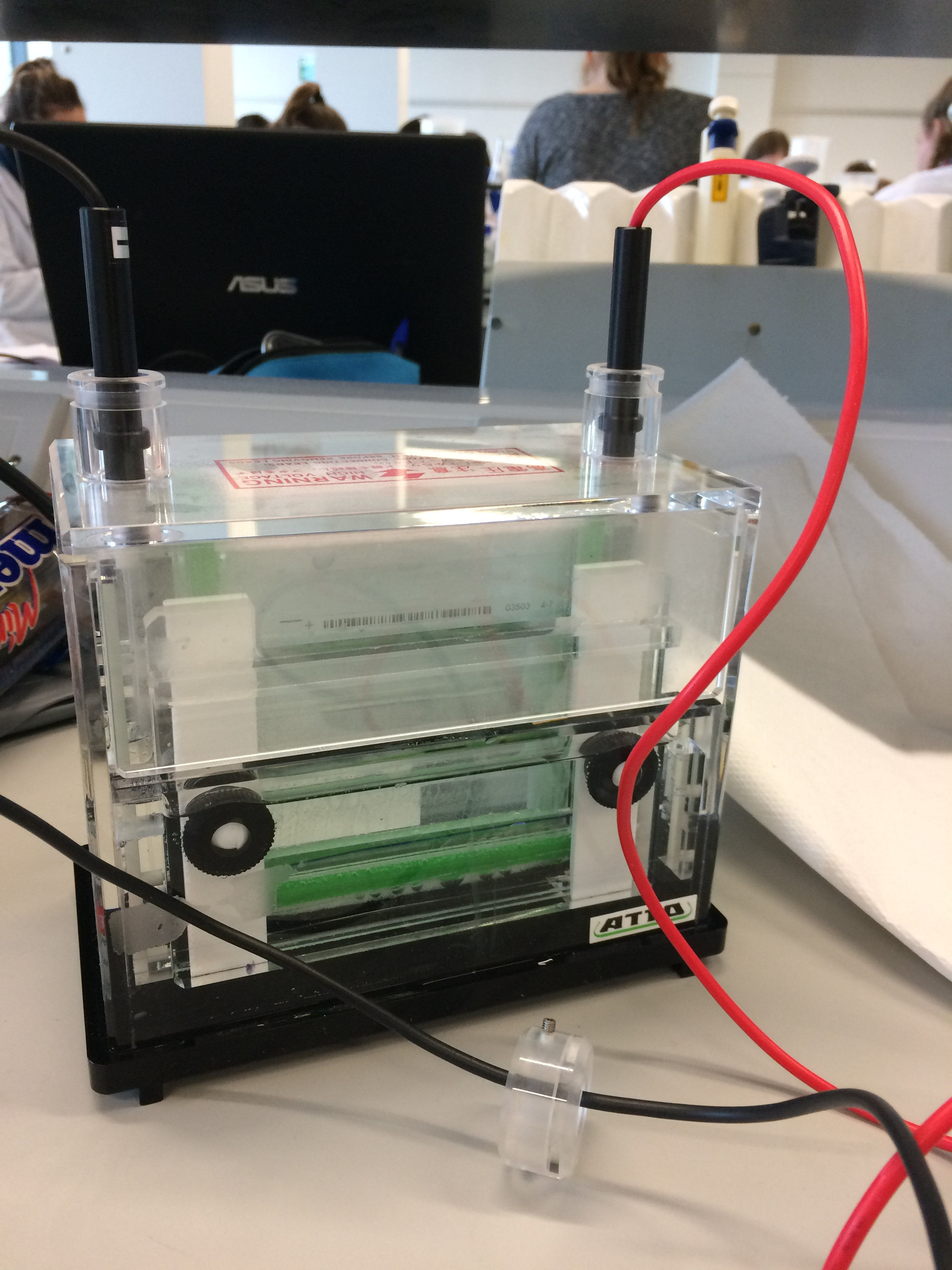 Western blot apparatus set up to separate proteins in a gel. There is a negative charge applied to the proteins allowing them to migrate to the positive charge. This separates the proteins based on size.